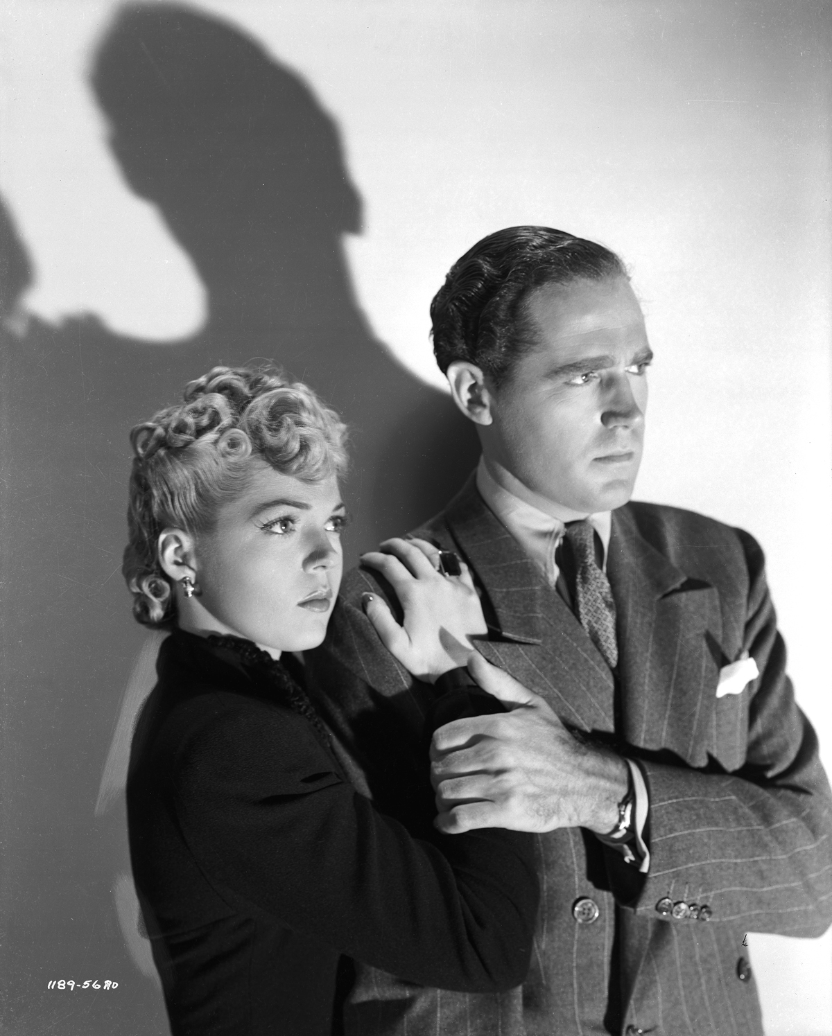 Anne Gwynne & Patric Knowles in The Strange Case of Doctor Rx - publicity still